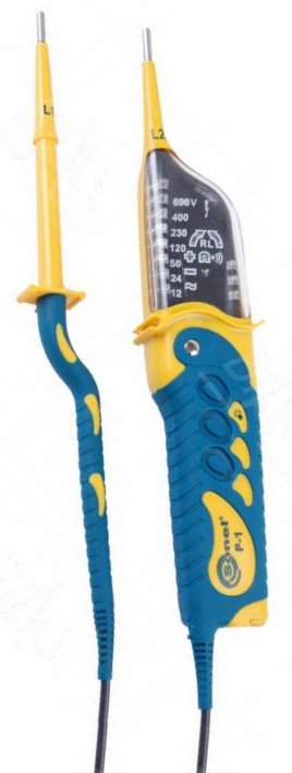 Voltage tester